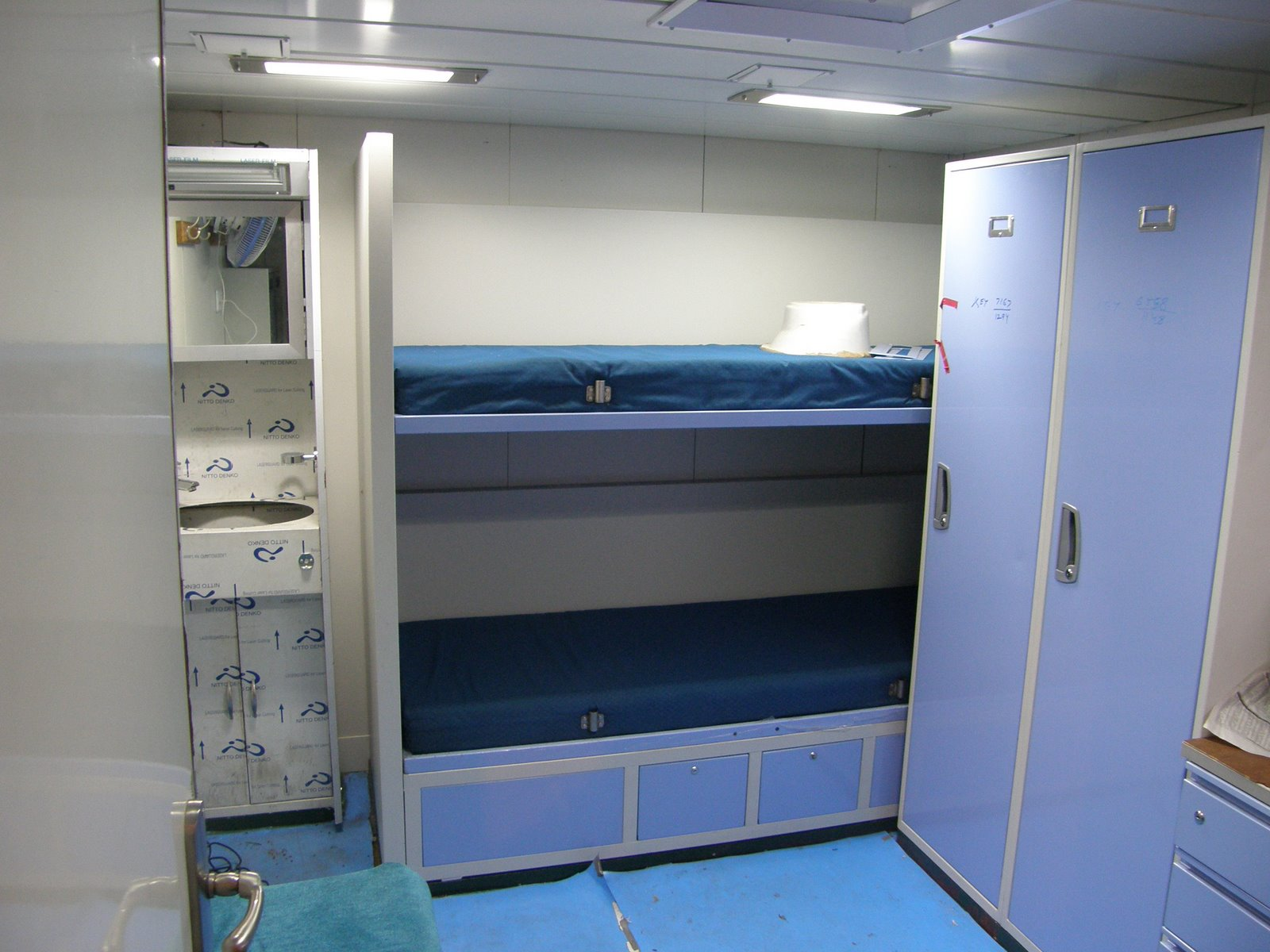 An Officer's Cabin aboard the INS Shivalik (en), a stealth frigate operated by the Indian Navy.